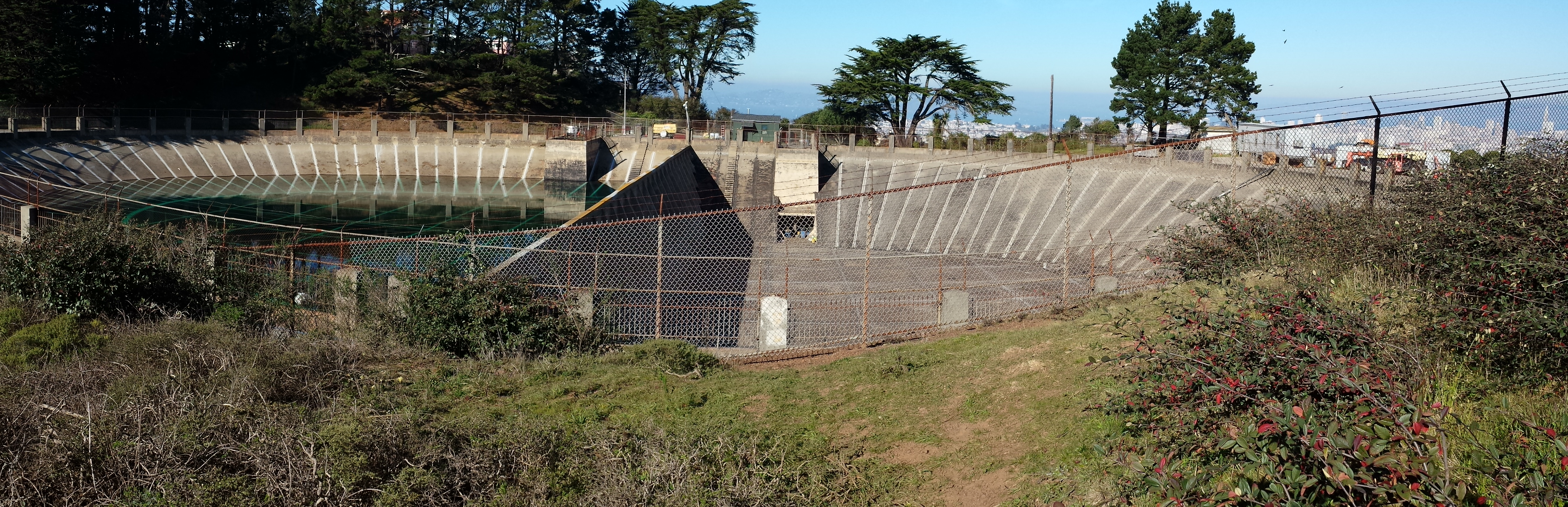 The Twin Peaks Reservoir in San Francisco. One of the bays is empty, and the other is nearly so.